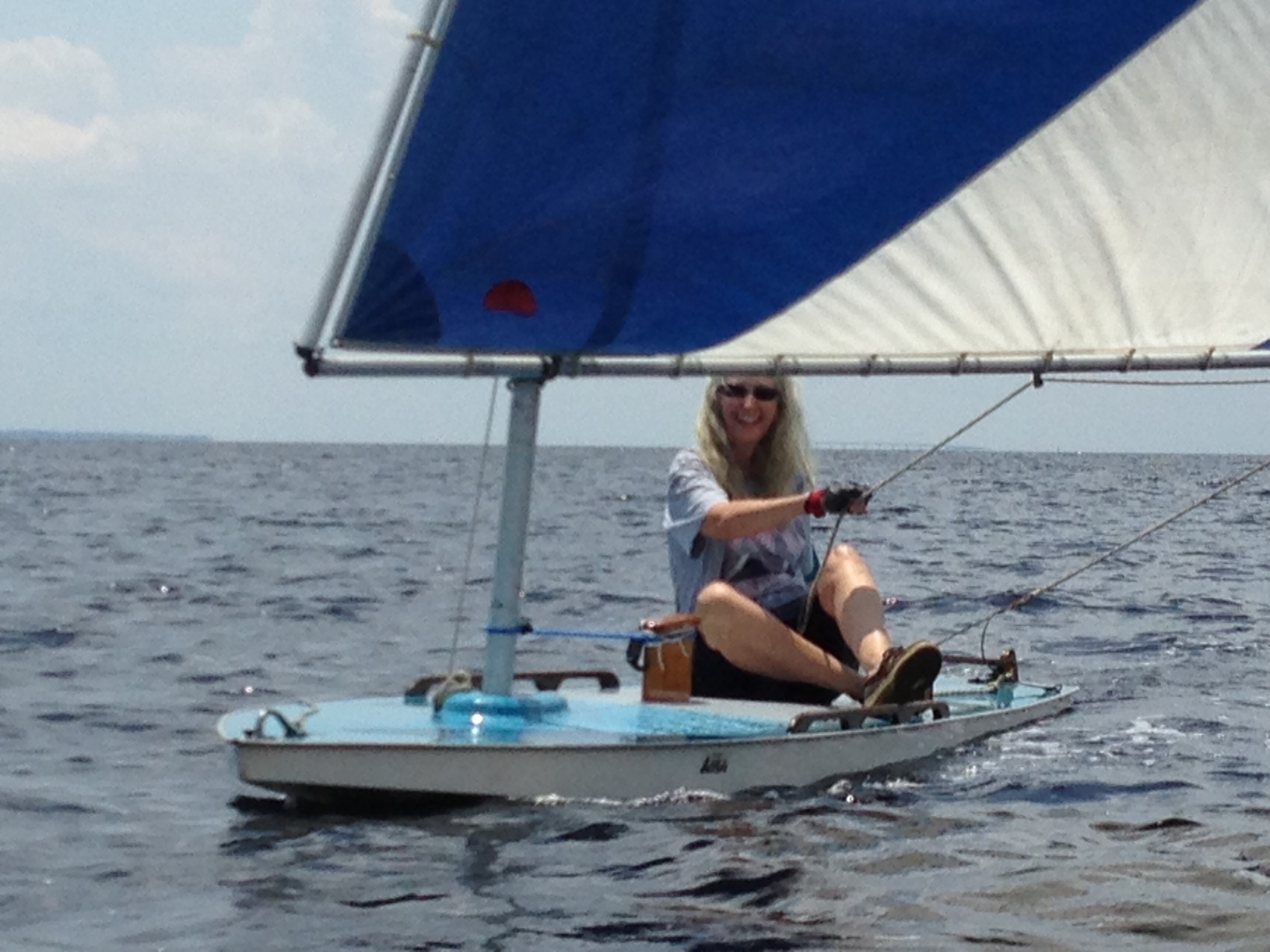 195? Alcort Super Sailfish Zsa Zsa on a reach in Pensacloa Bay 2013